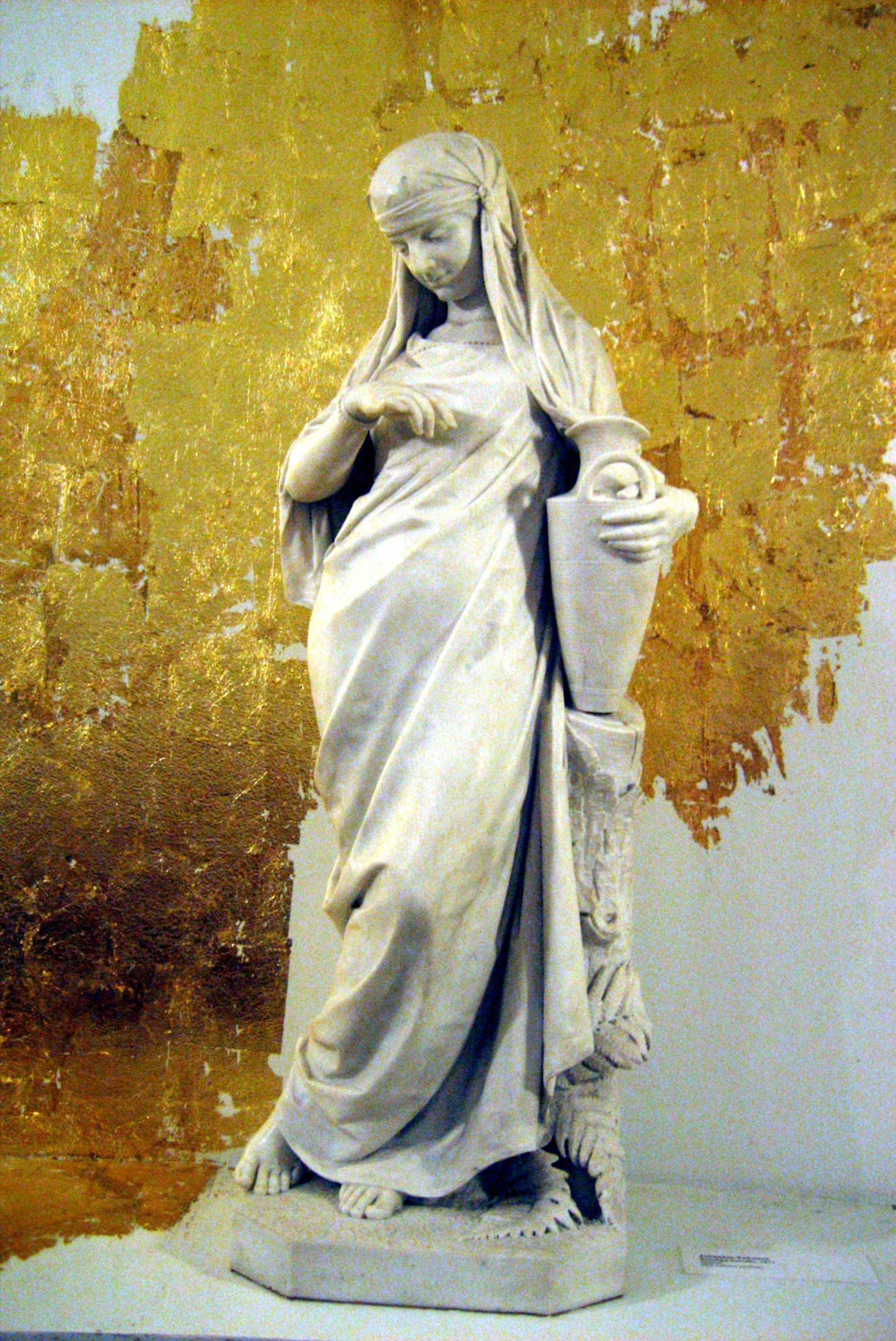 Johannes Takanen (1849–1885): Rebecca. Marble. Photographed in Tampere Art Museum, Tampere, Finland